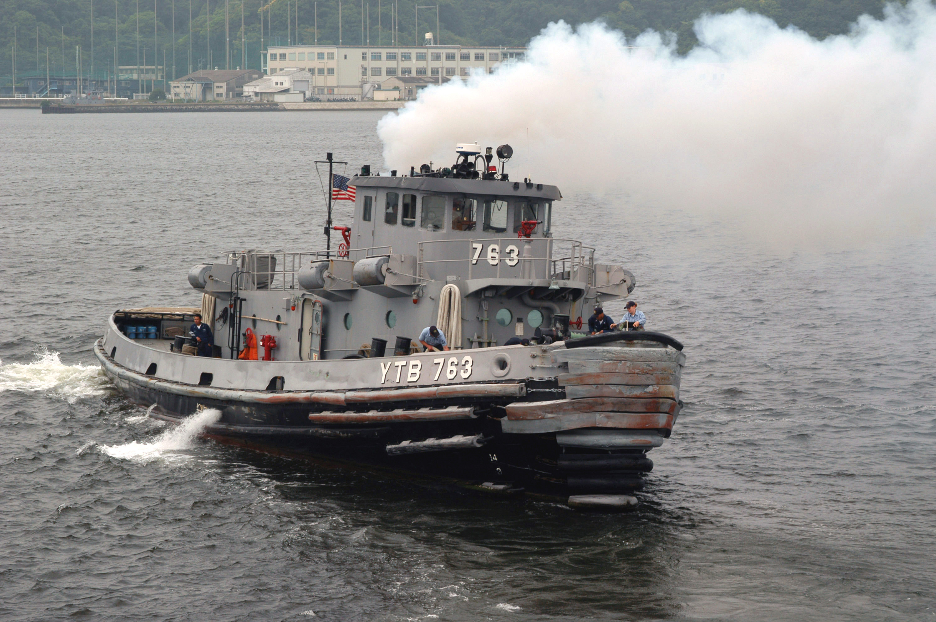 Portrait of US Navy (USN) Harbor Tug USS Muskegon (YTB 763) while working alongside a ship at the Naval Base Yokosuka, Japan, the last base to use an all-Navy crew on the tugs.